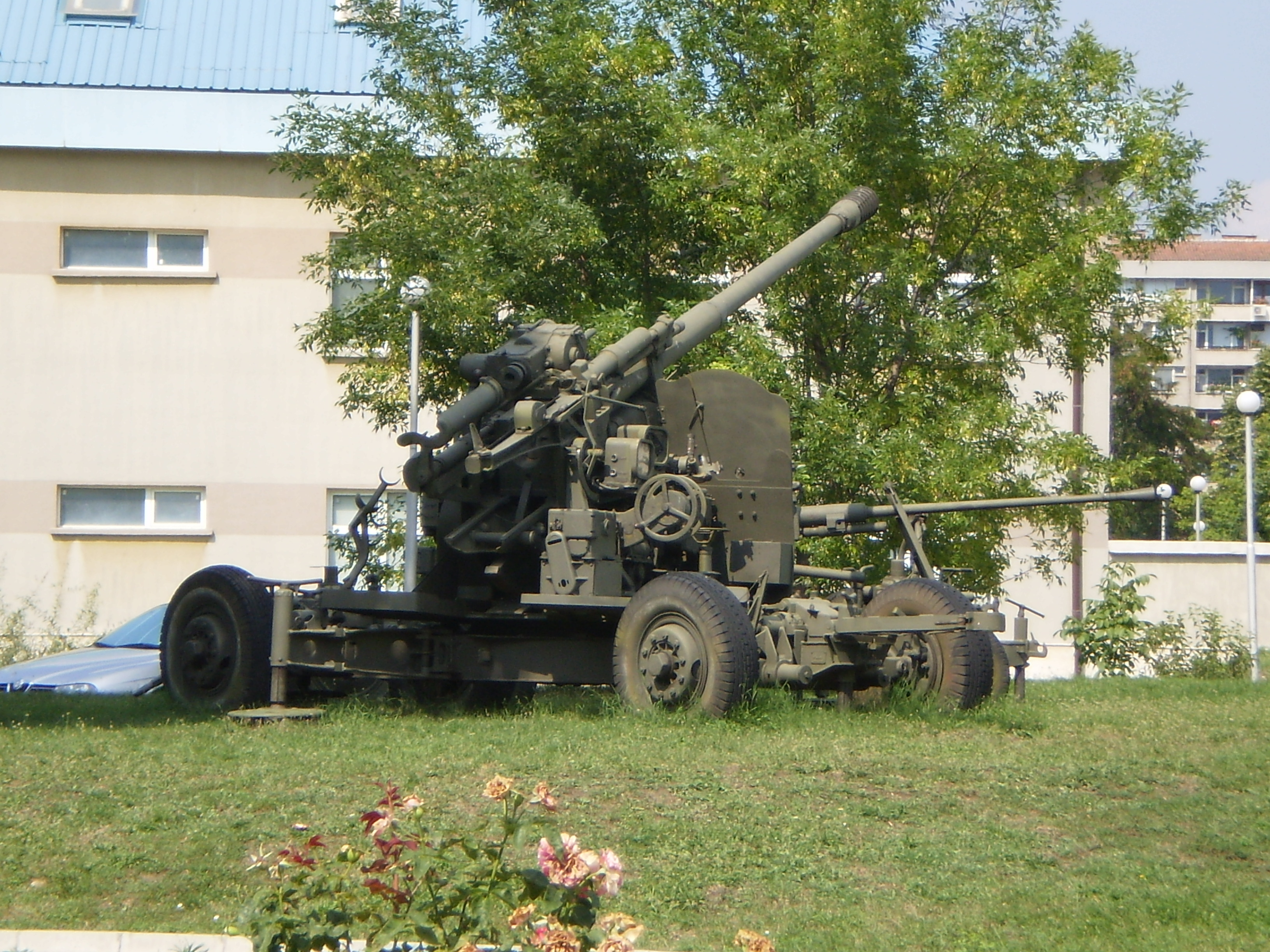 A KS-19 heavy air defence gun, National museum of military history in Sofia